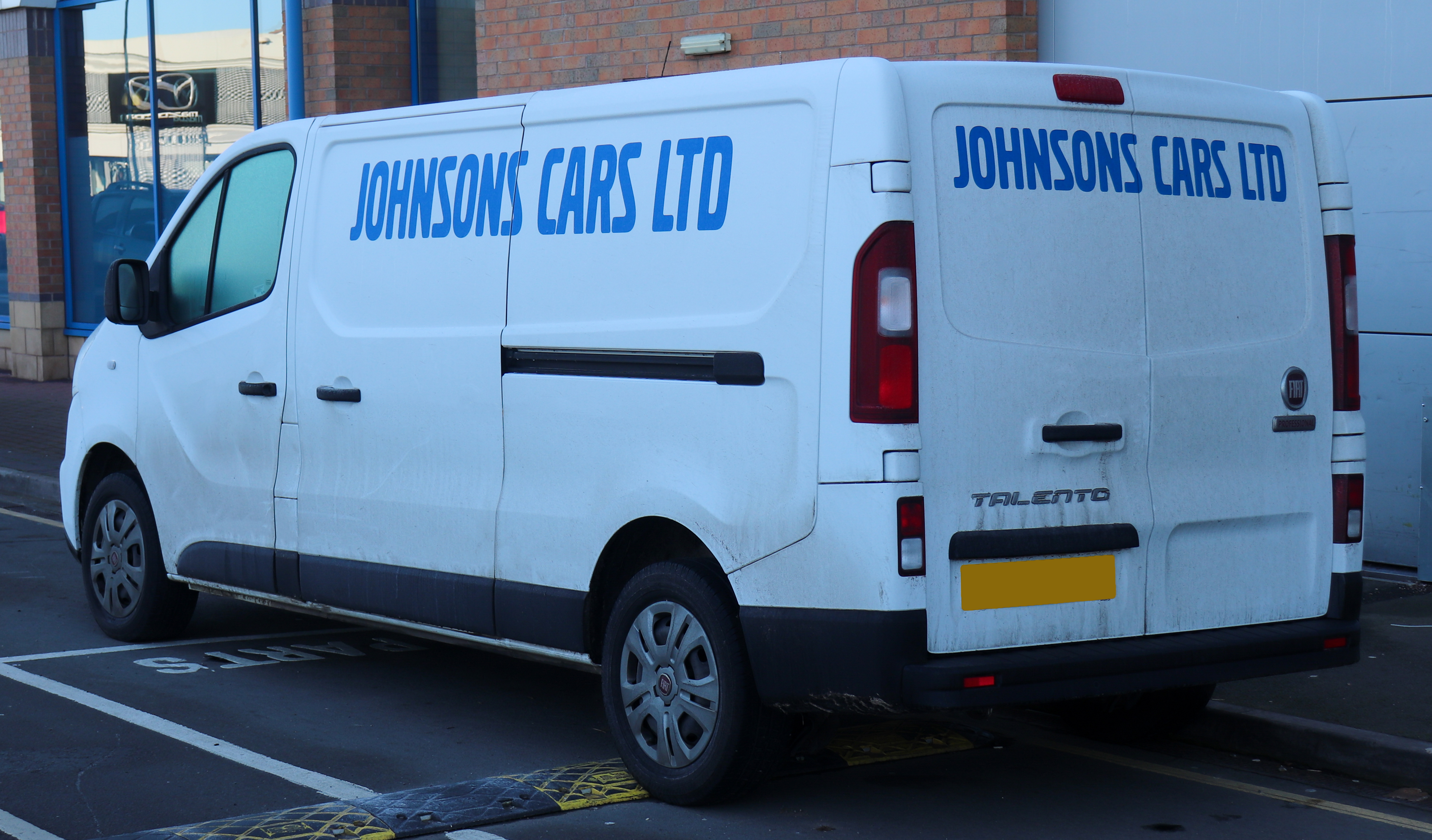 2019 Fiat Talento SX Multijet II 1.6 Rear Taken in Solihull